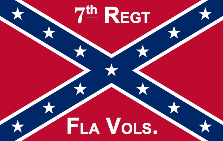 7th Florida Infantry Regimental Colors from about April 1864 to April 1865. Image based on 6th Florida Infantry Regimental Colors (maintained at Florida Museum of History at Tallahassee; image may be viewed at State Archives of Florida, Florida Memory